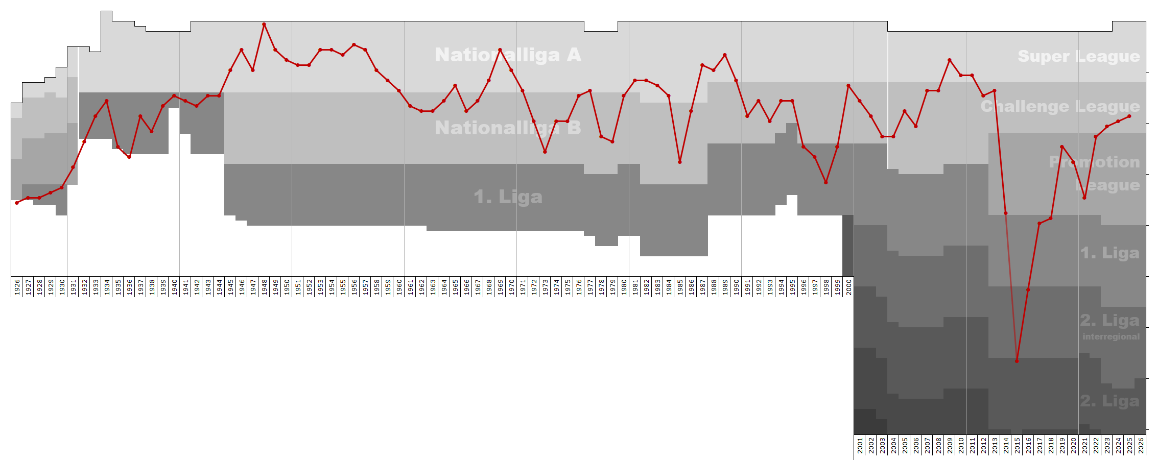 Chart of end-season table positions for AC Bellinzona in the Swiss football league system. Data source: RSSSF, , al-la.ch